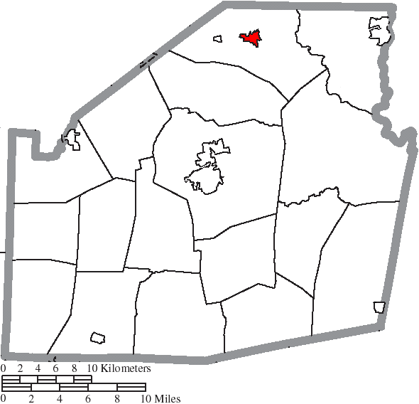 Map of the municipal and township boundaries of Highland County, Ohio, United States, as of the 2000 census, with the location of the village of Leesburg highlighted. Township borders are shown only in unincorporated areas in order to differentiate incorporated and unincorporated areas more clearly.